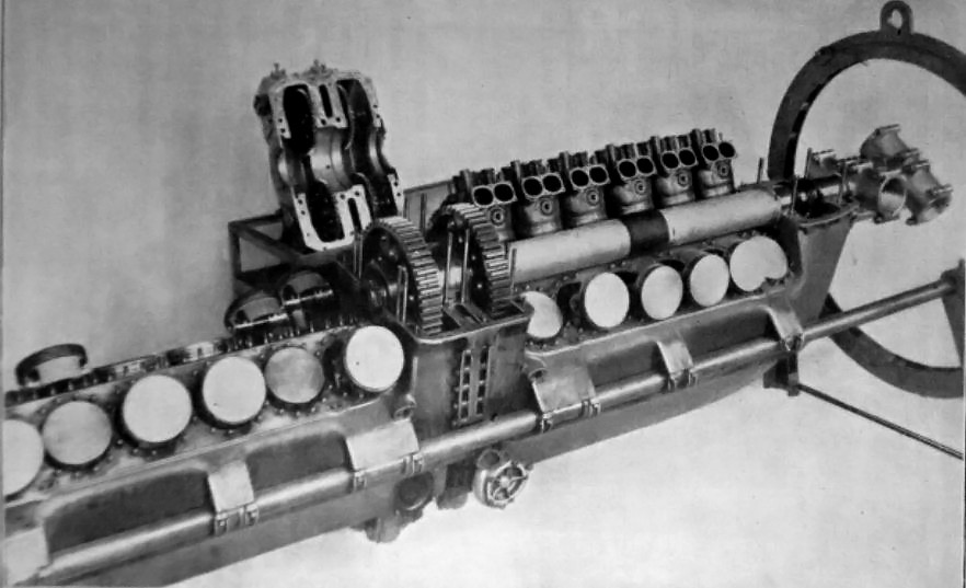 FIAT AS.6 aircraft engine